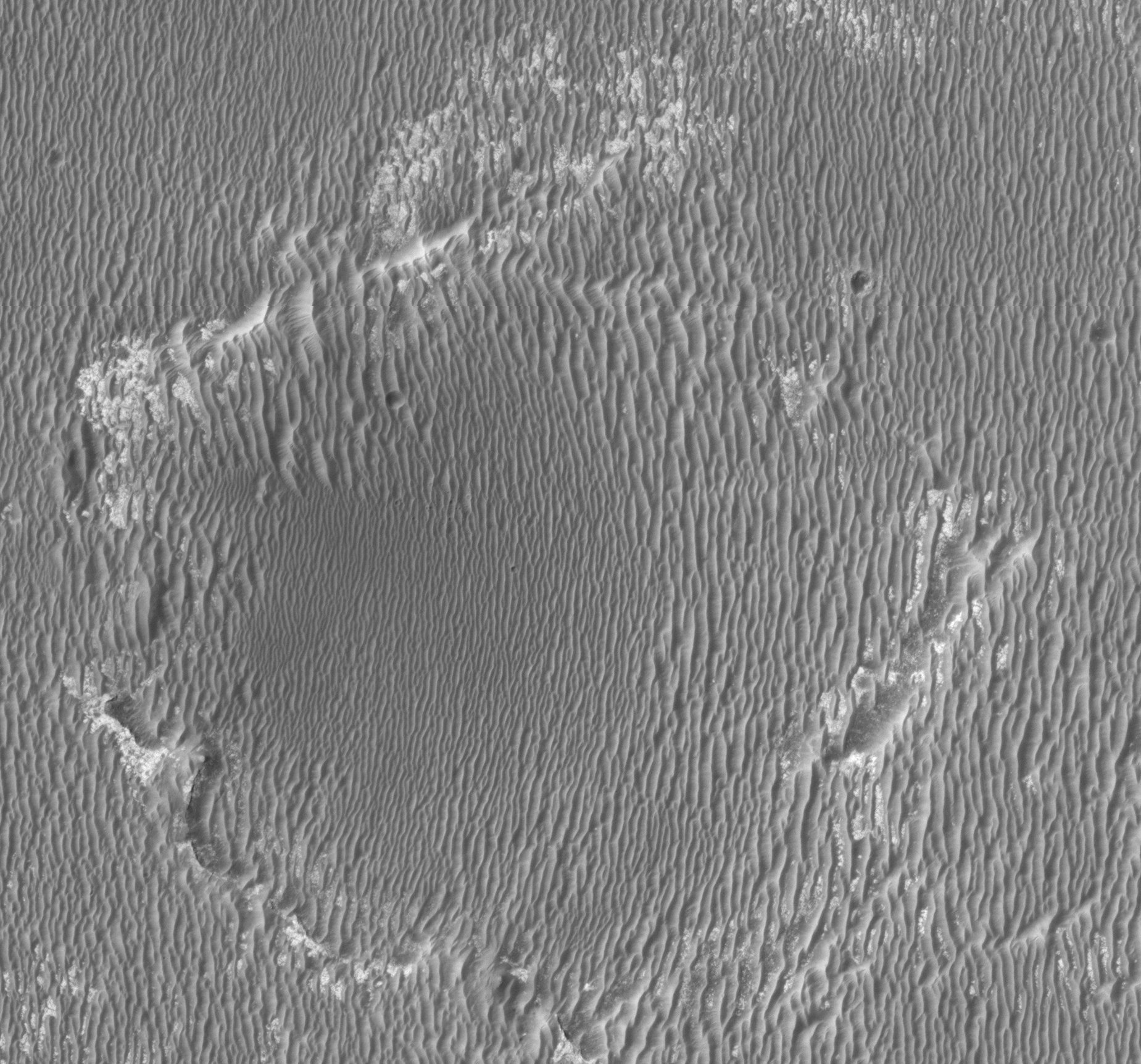 Erebus crater, as seen by HiRISE. Cropped from [1] WARNING: 215 MB! Scaled images are available from [2].